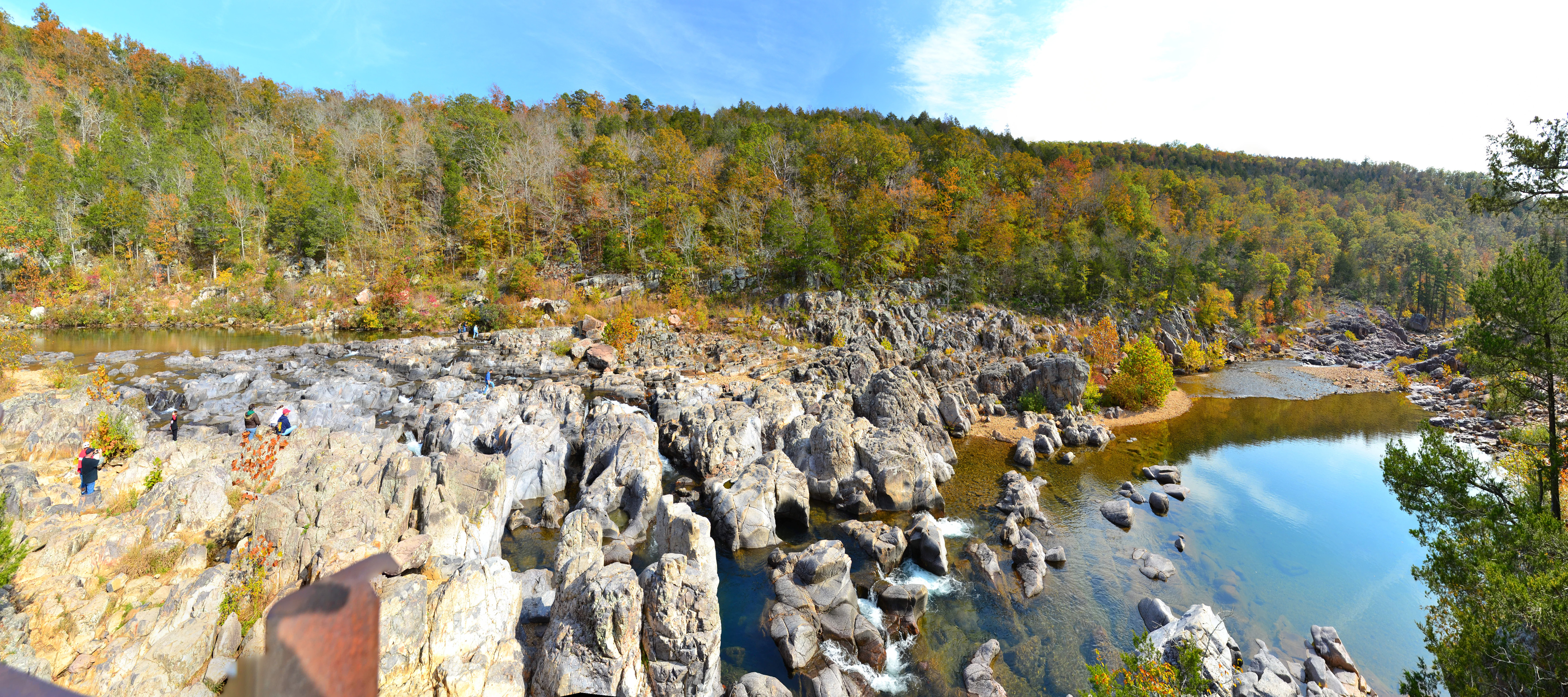 The shut-ins at Johnson's Shut-ins State Park in Missouri in autumn. This panoramic image was stitched from 29 images and rendered with a Panini projection. The water level and flow volume are lower than normal in this picture due to several months of below-average rainfall.